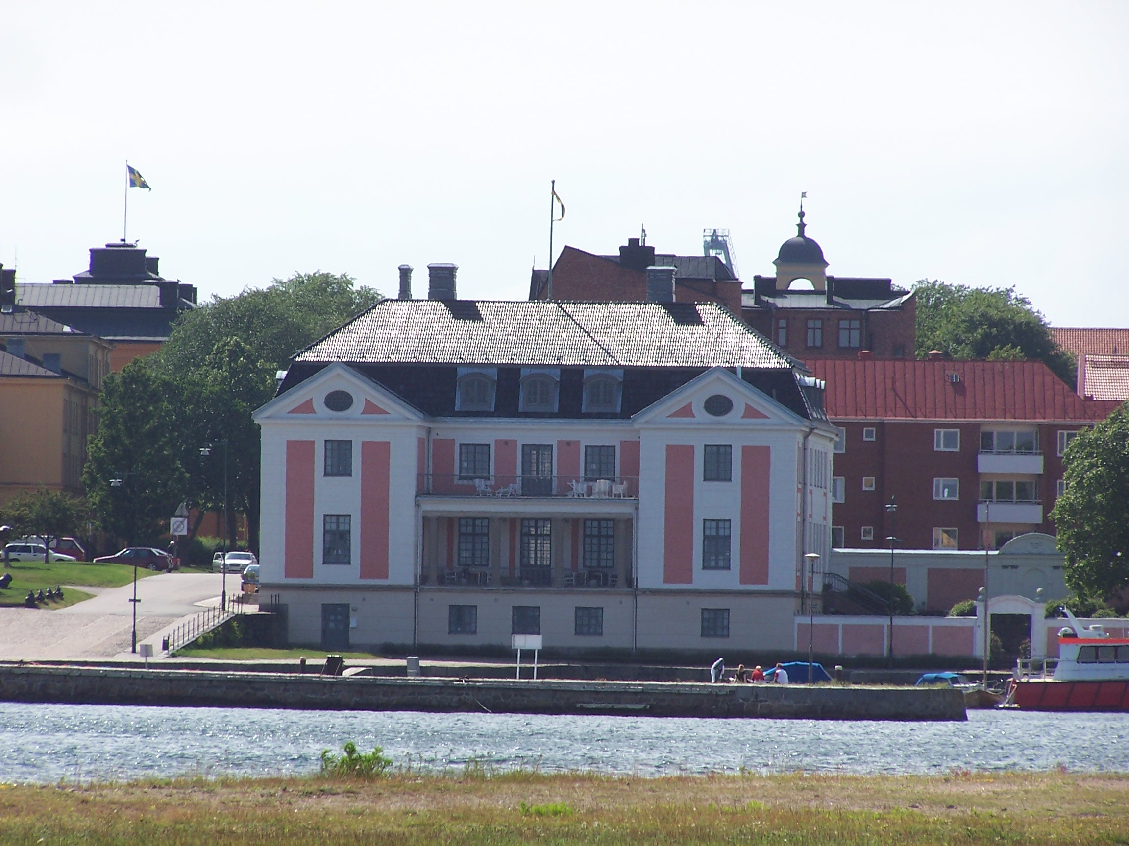 Länsresidenset (County governor's residence), Karlskrona.